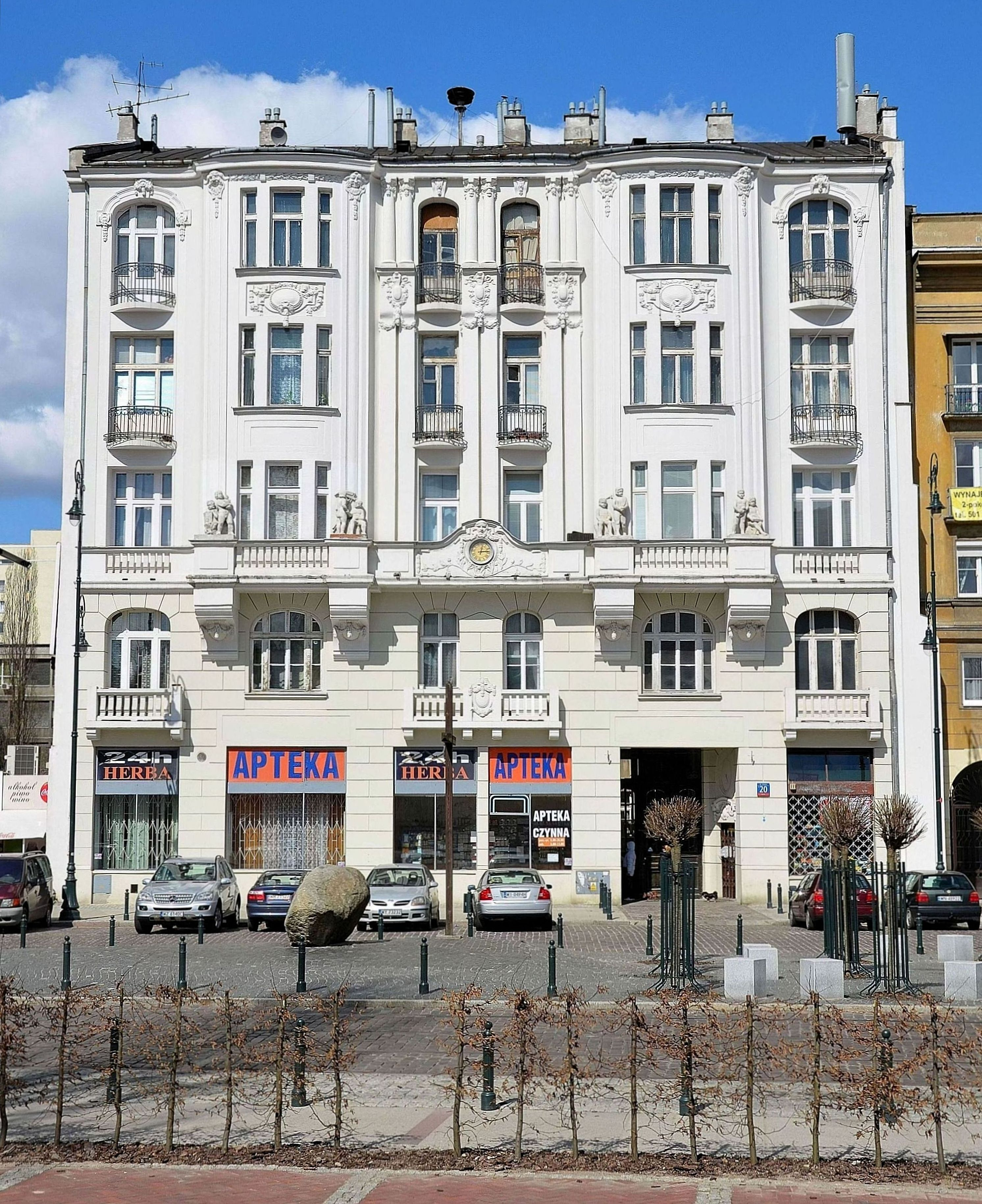 Under the Clock tenement house at 20 Chłodna Street in Warsaw (listed in the Register of Historic Monuments on 23.02.2005, reference no. 377-A)